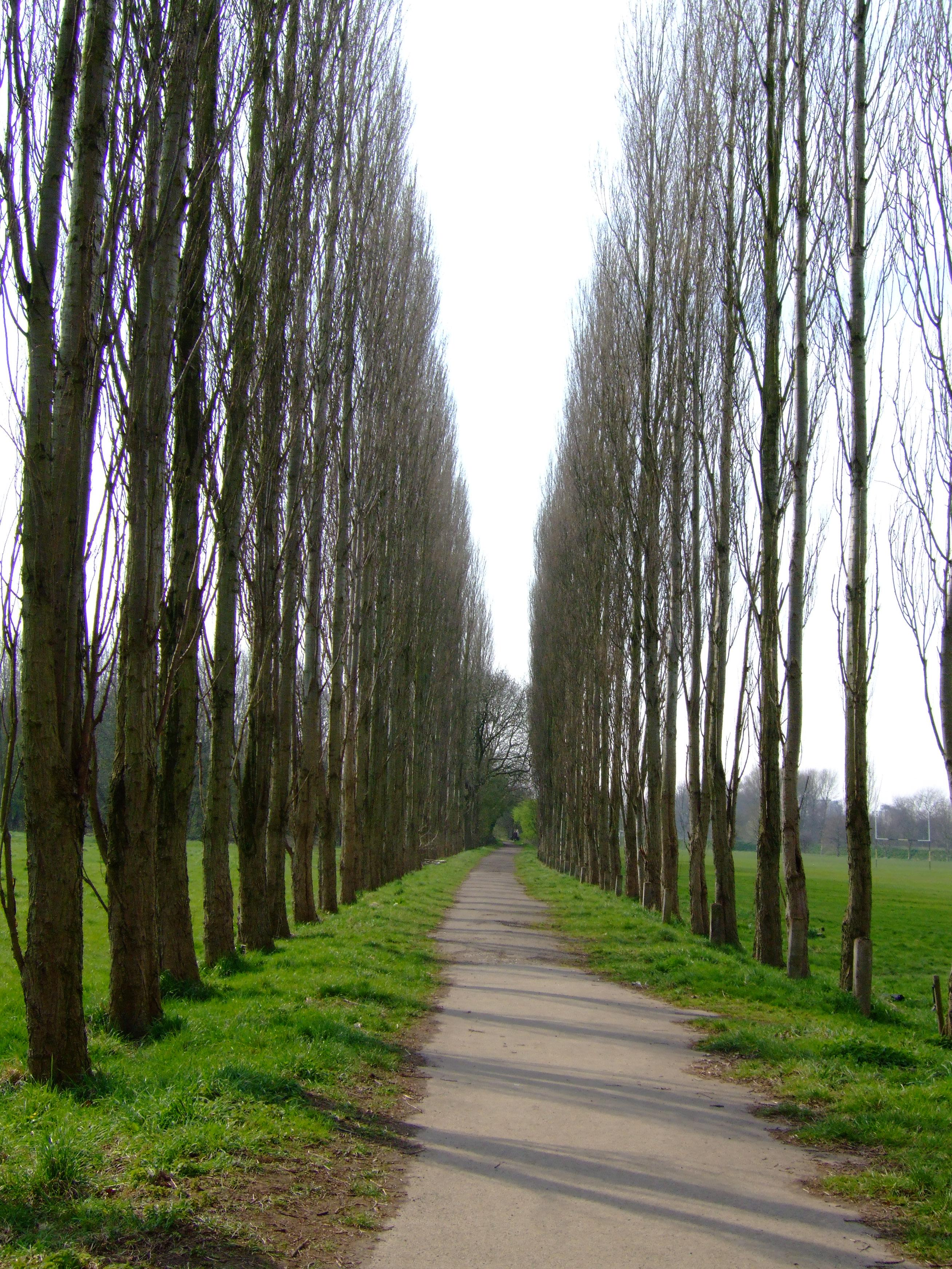 The tree-lined path through Fletcher Moss which in the distance, runs along the River Mersey.